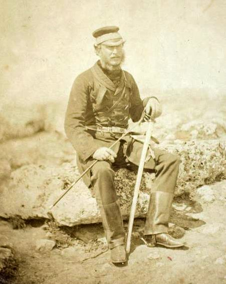 Roger Fenton English, 1819–1869 T.W.H. Fane, 12th Earl Westmorland, (1825-1891); as Lord Burghash at Crimea, taken at Crimea, 1855 Thinly albumenized print, from a collodion wet plate negative 20.0 x 16.4 cm